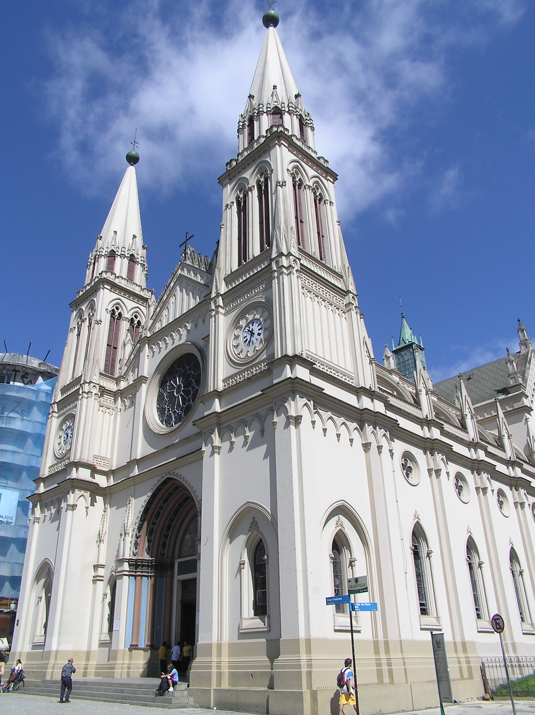 Metropolitan Cathedral, the Basilica of Nossa Senhora da Luz in Curitiba.